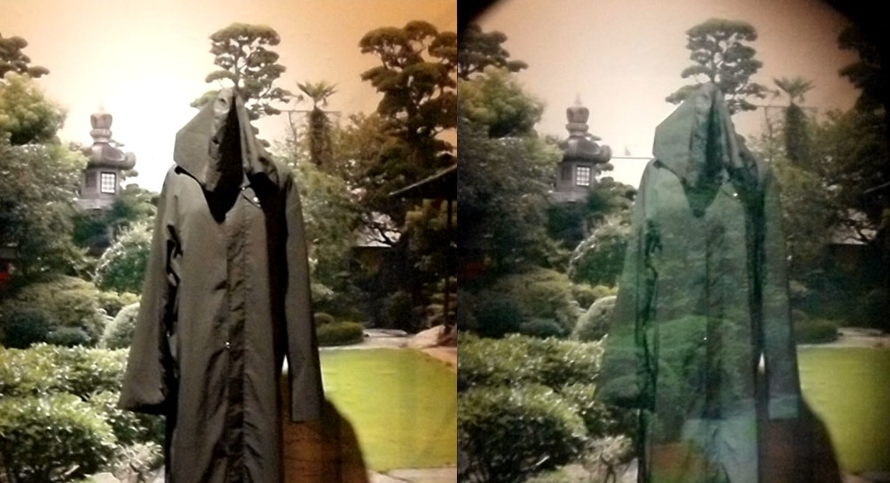 An invisibility cloak using optical camouflage by Susumu Tachi of the University of Tokyo on display at the National Museum of Emerging Science and Innovation (Miraikan) in Tokyo (photo taken in 2012). Left: The cloth seen without a special device. Right: The same cloth seen though the half-mirror projector part of the Retro-Reflective Projection Technology.